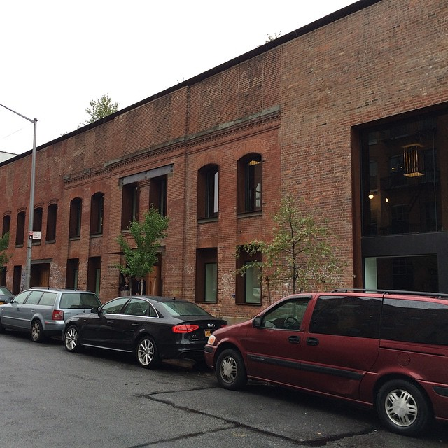 Yesterday Malcolm & I went on a tour of Kickstarter's headquarters in Greenpoint, Brooklyn. Designed by Ole Sondresen. Impressive. #Kickstarter #brooklyn #greenpoint #openhouse #architecture #olesondresen